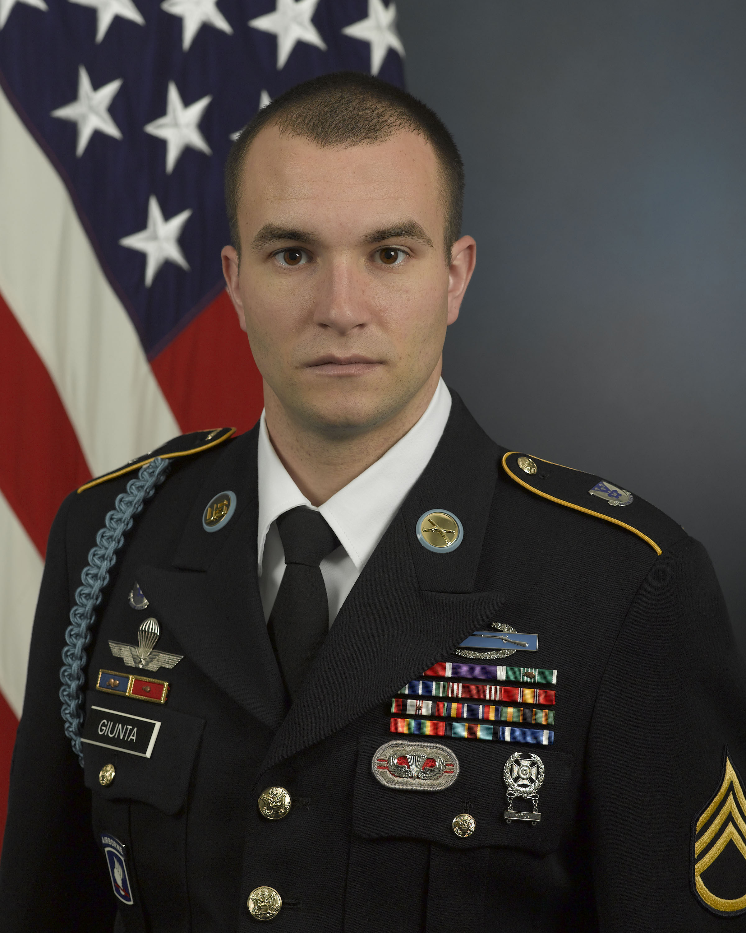 United States Army soldier, Staff Sergeant Salvatore Giunta, the first living recipient of the Medal of Honor for service in Iraq and Afghanistan.